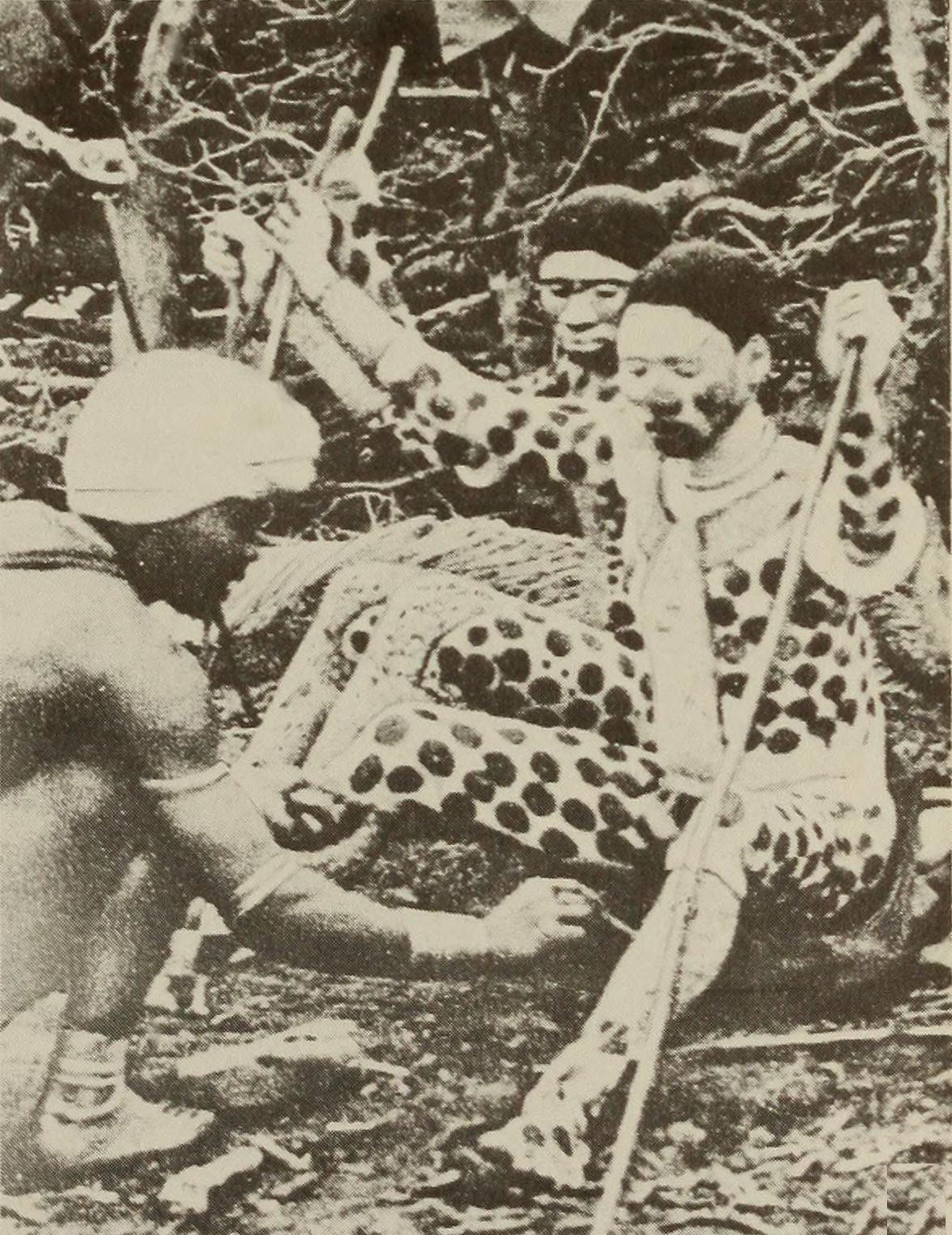 Description:abakhweta being painted for the dance, Bomvana (tribe); no locality, c. 1930 (photo A. M. Duggan-Cronin MM). Title: Annals of the South African Museum = Annale van die Suid-Afrikaanse Museum Year: 1898 (1890s) Authors: South African Museum Subjects: Natural history Publisher: Cape Town : The Museum Text Appearing Before Image: THE MATERIAL CULTURE OF THE CAPE NGUNI 601 Text Appearing After Image: '